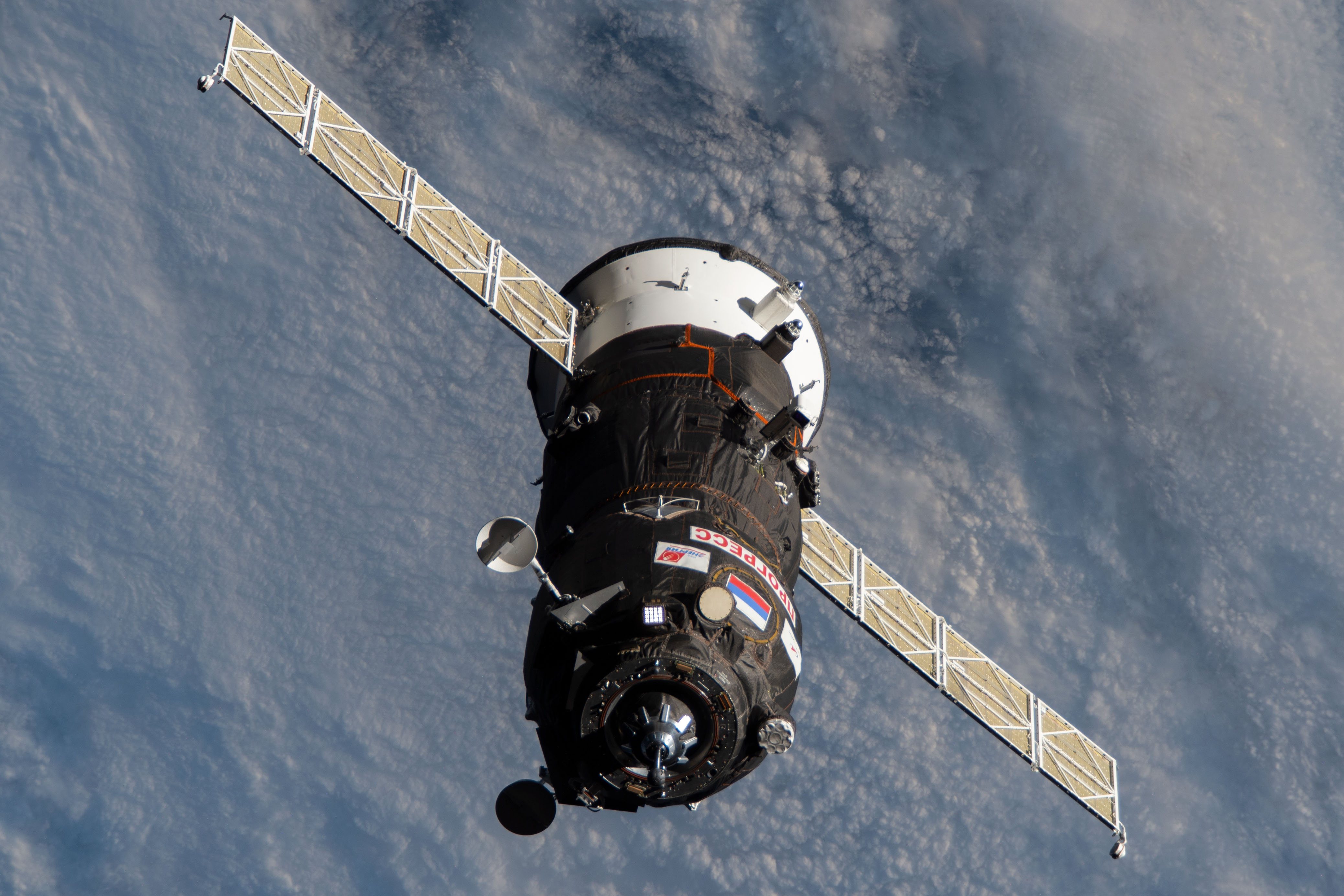 Russia's Progress 73 resupply ship approaches the International Space Station's Pirs docking compartment packed with almost three tons of food, fuel and supplies for the Expedition 60 crew.